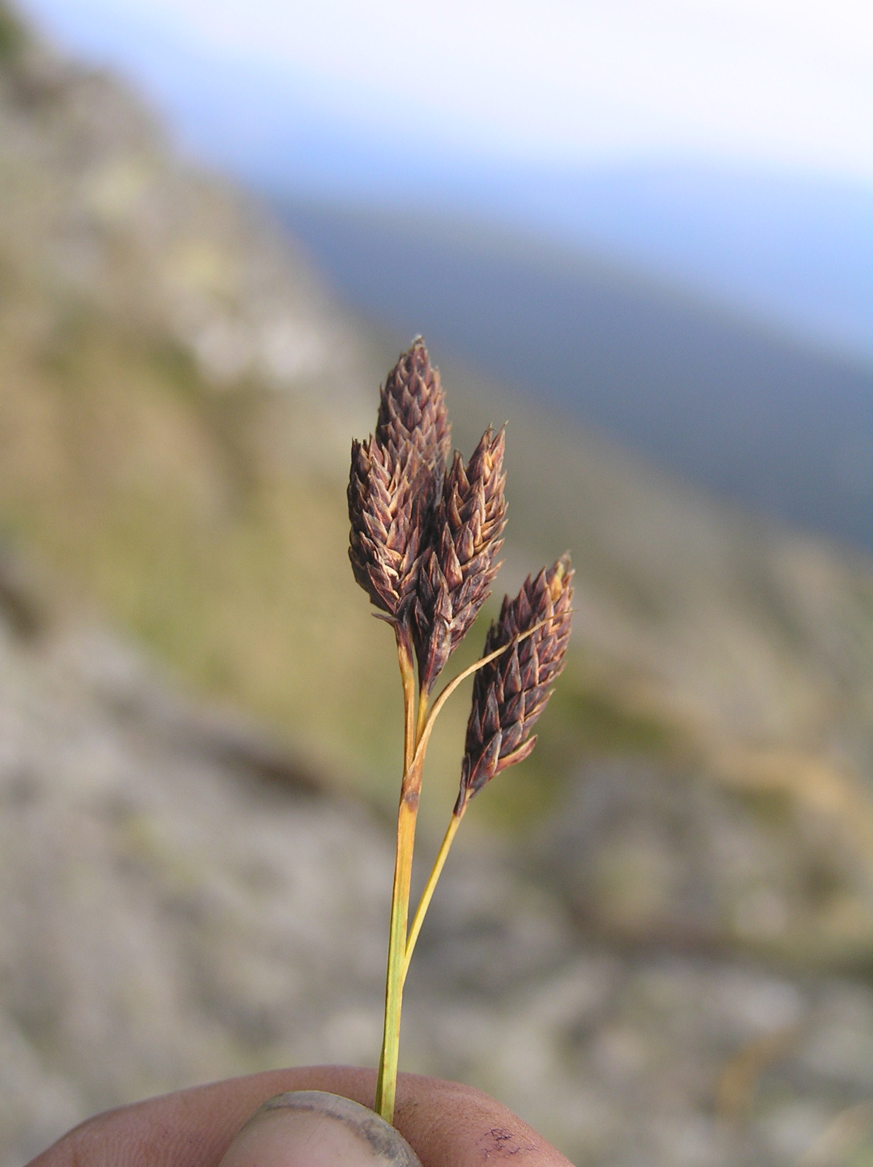 Carex atrata, Sněžka, Krkonoše, Czech Republic